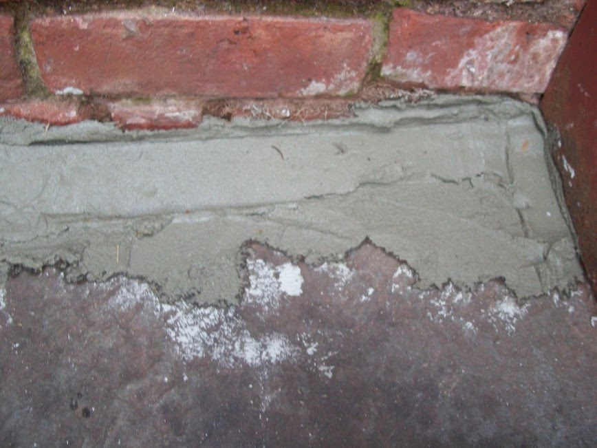 Rainwater has been seeping into a basement. One solution is to mortar the crack between the house and the backyard patio (shown in the picture). Source: here (says public domain at top of article). Questions? Ask me on my Wikipedia page or email me at